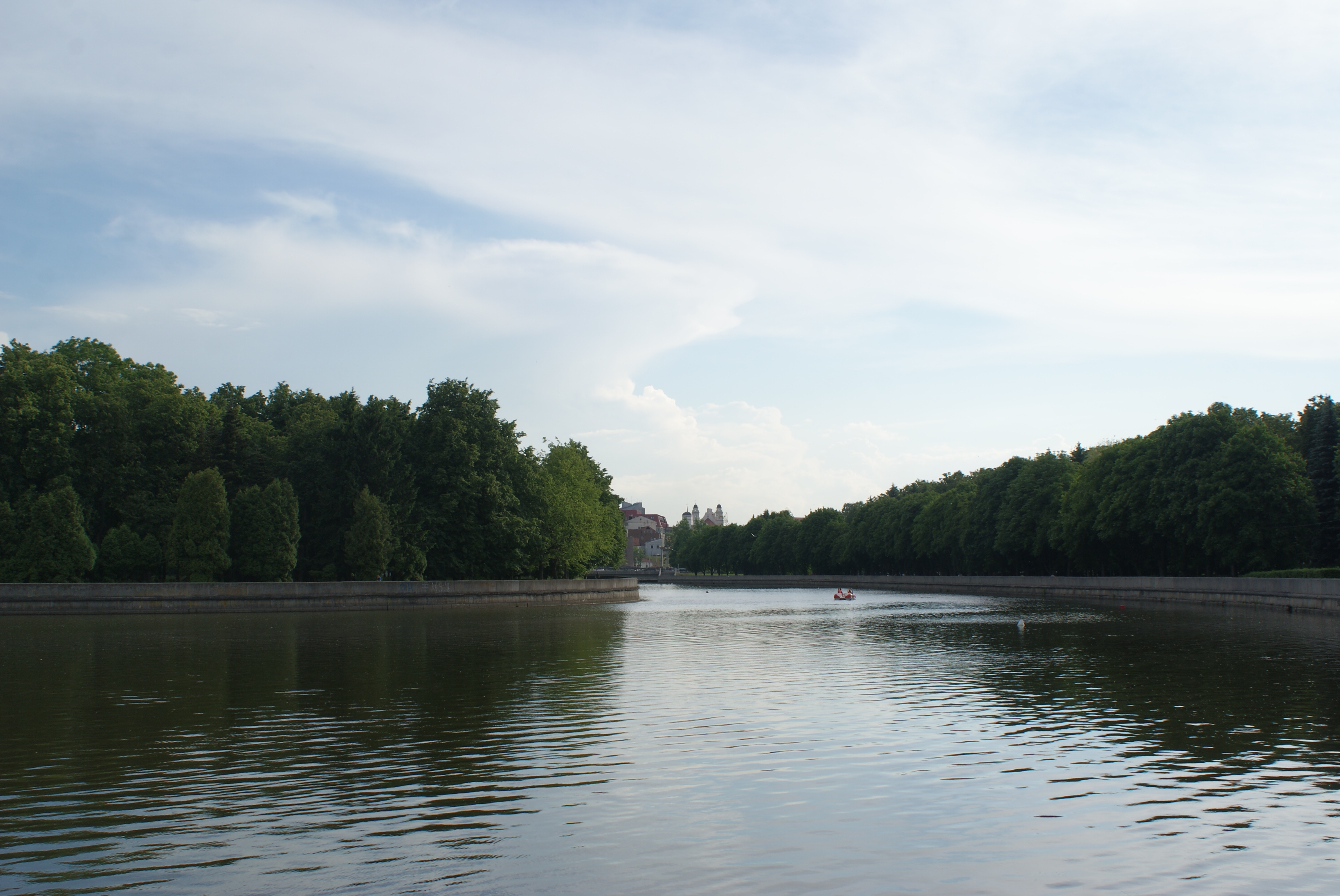 Kupala Park in Minsk